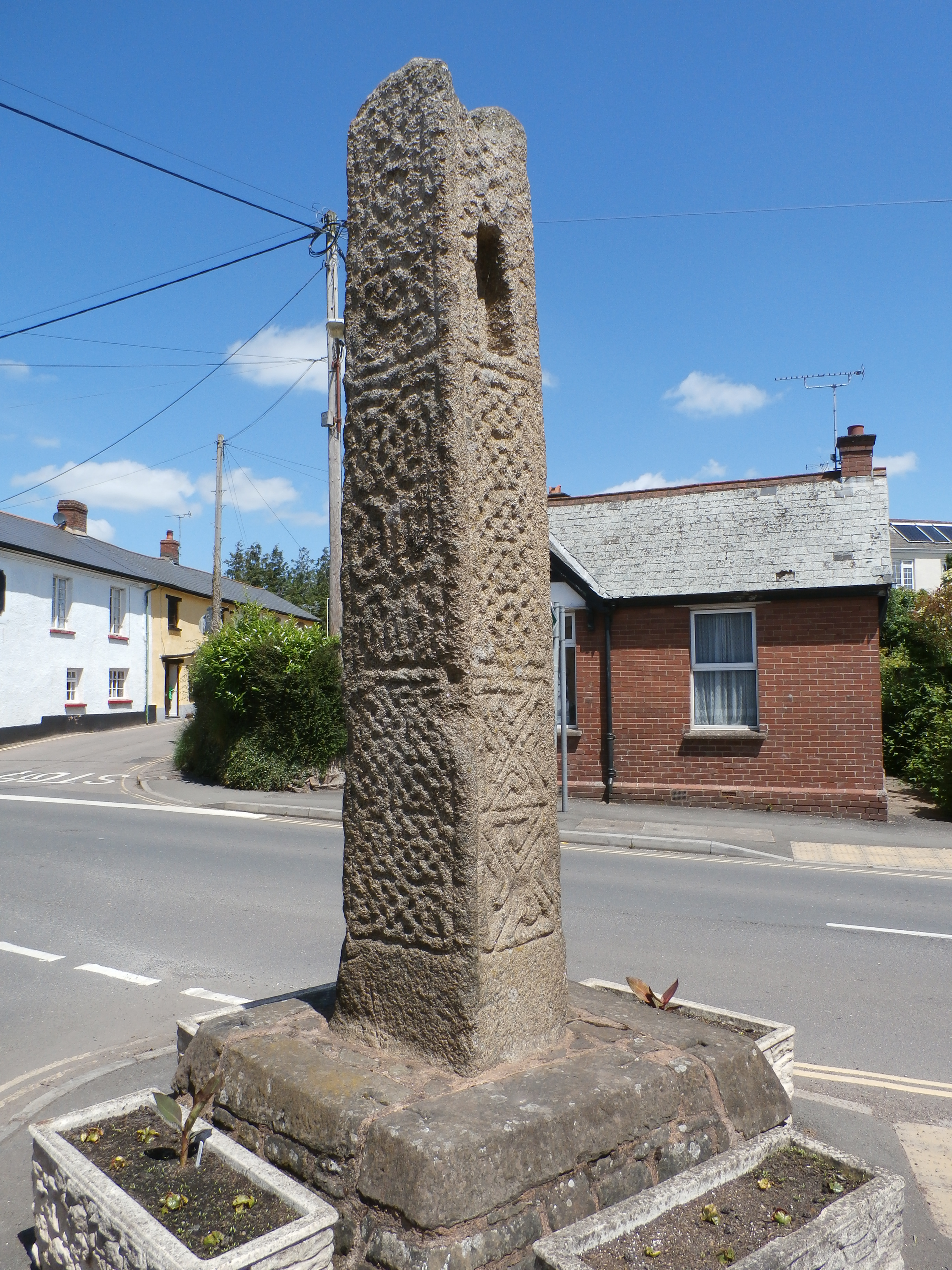 Copplestone Cross, Devon, south-west face